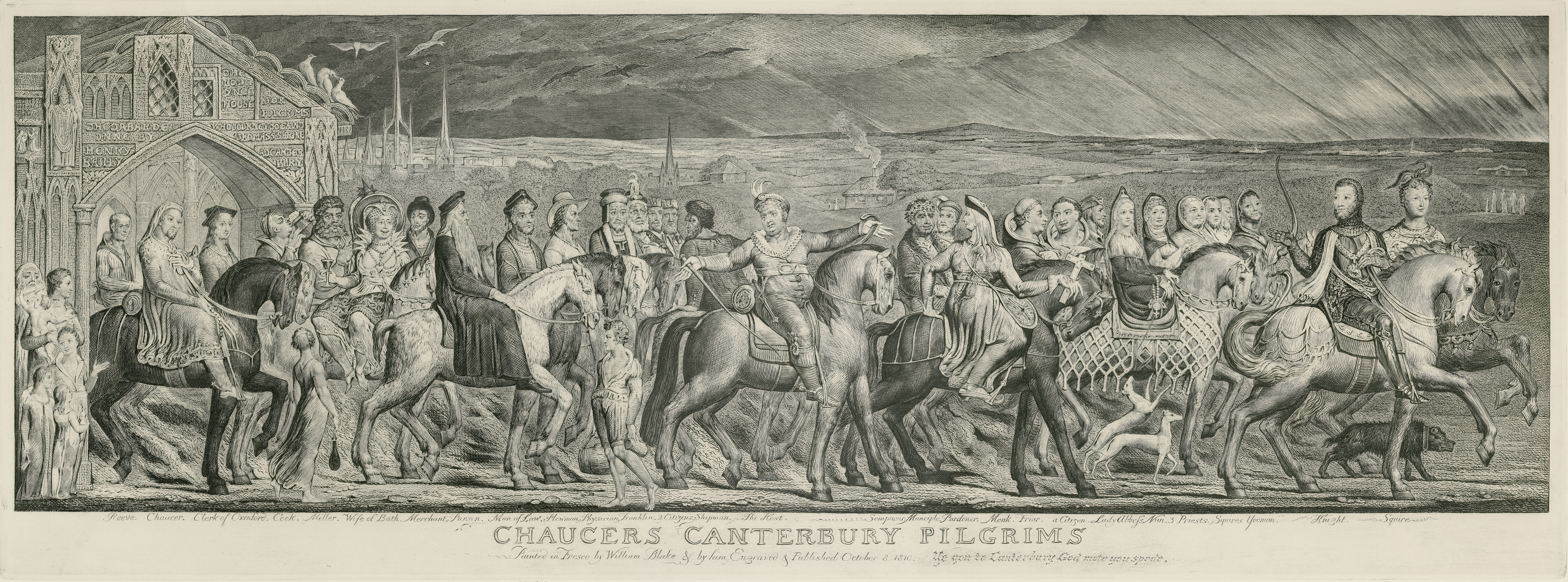 The Canterbury Pilgrims Copper engraving printed on paper. Approximately 1 × 3 ft. Multiple impressions in various collections; this impression is owned by The McCormick Library of Special Collections at Northwestern University, Illinois (USA).